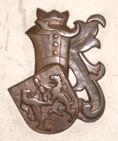 Coat of Arms of Count Fran Krsto Frankopan, also containing the Coat of Arms of the House of Frankopan (two heraldic lions breaking bread), from the Zagreb Cathedral.